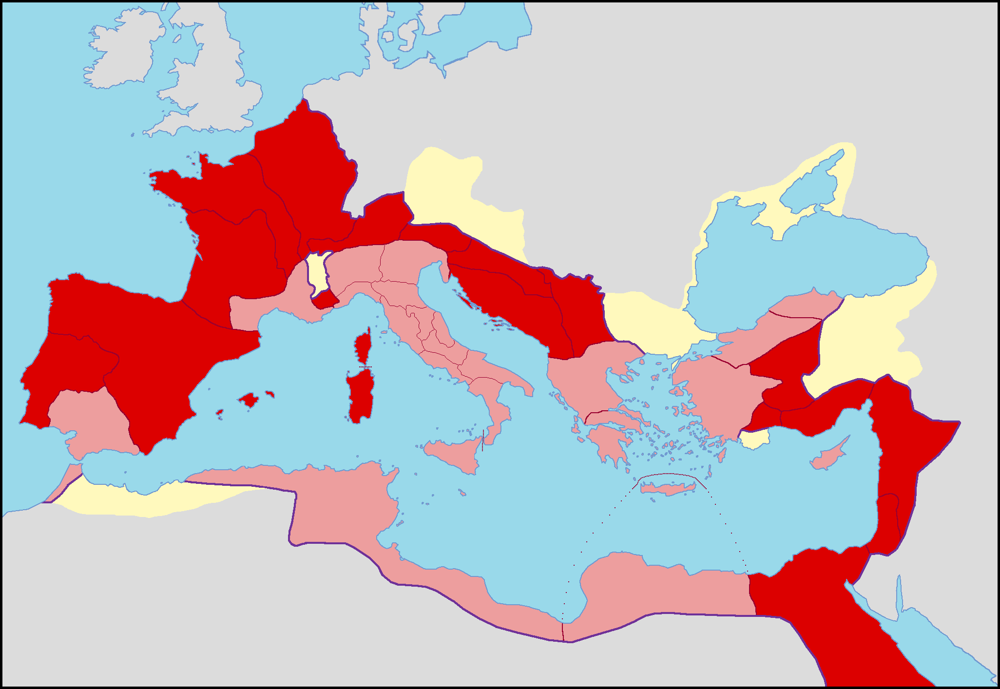 Map of the Roman Empire with differents colours for senatorial and imperial provinces in 14 AD